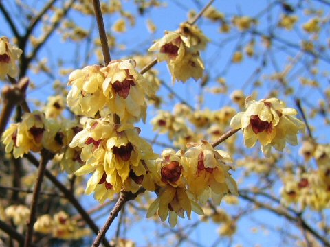 Chimonanthus praecox